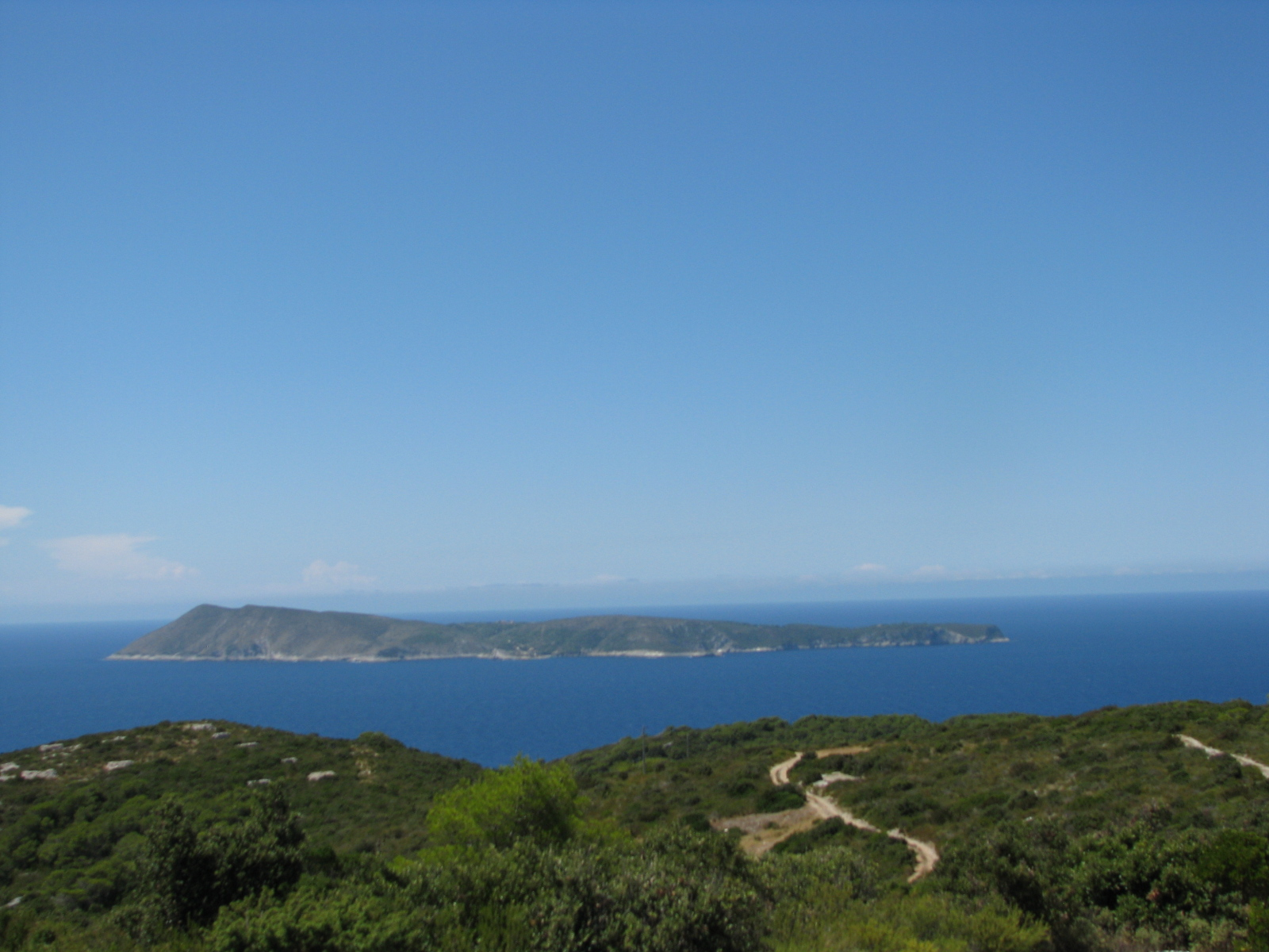 Island of Biševo, view from the Island of Vis (Cape Stupište)